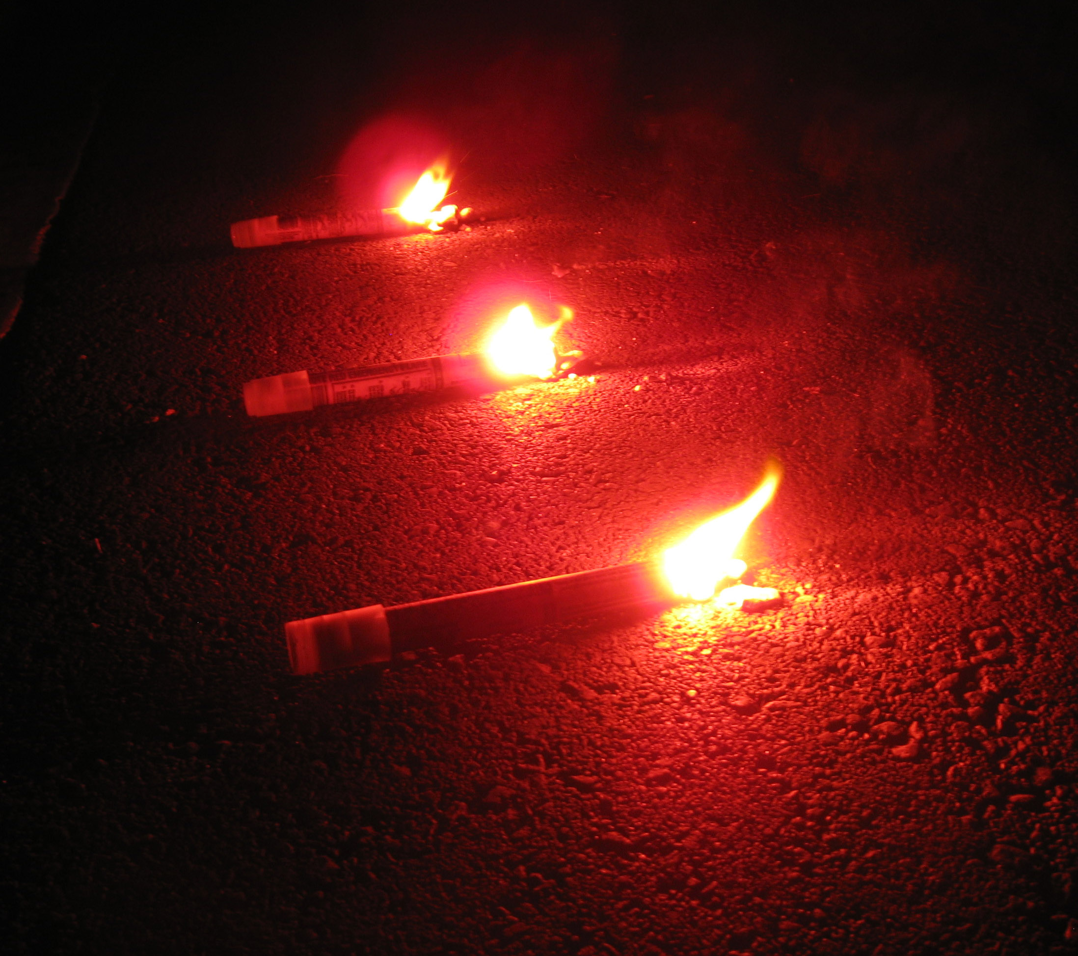 Three road flares burning at night. Originally taken for